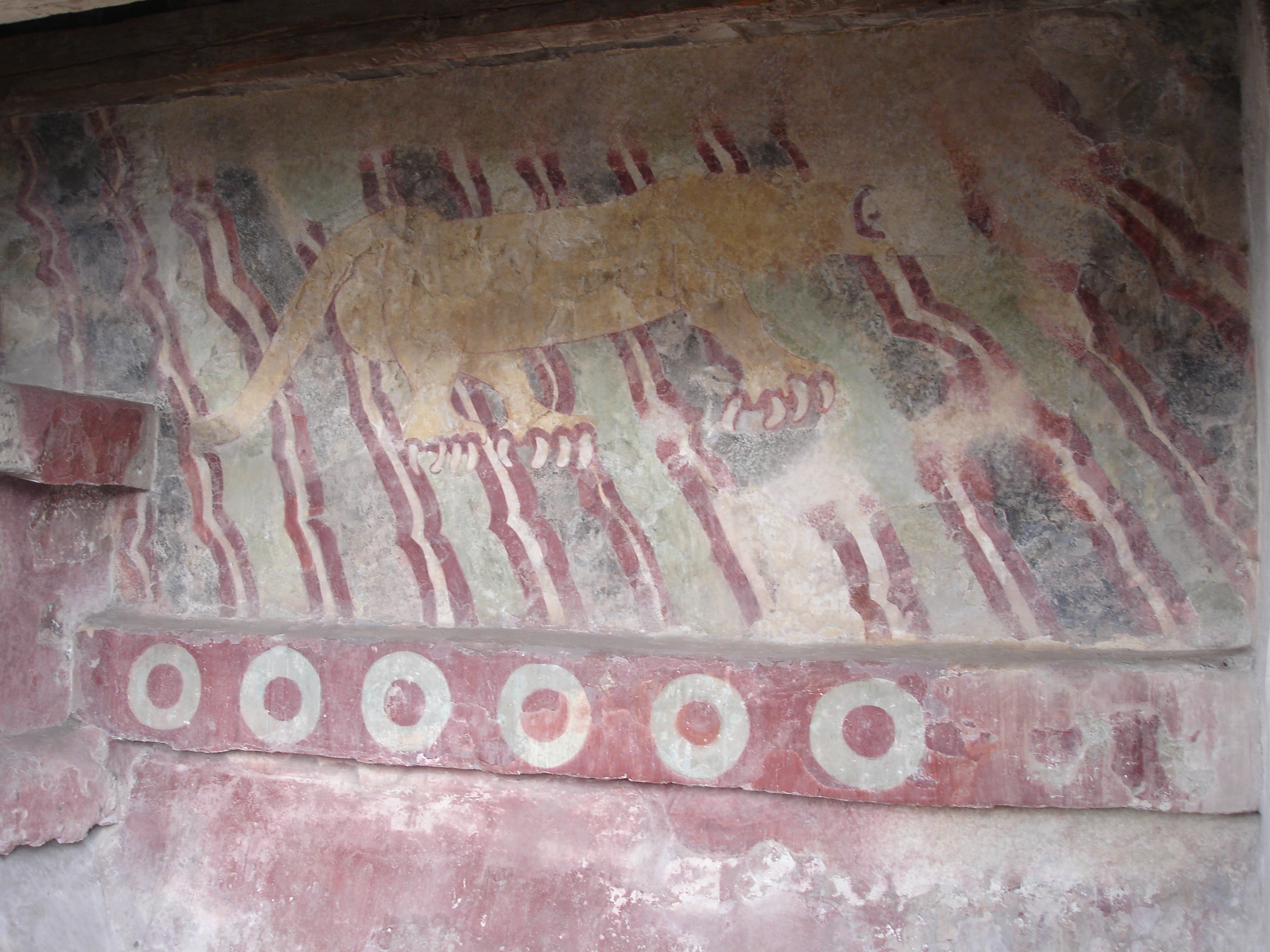 Ruins of Teotihuacan